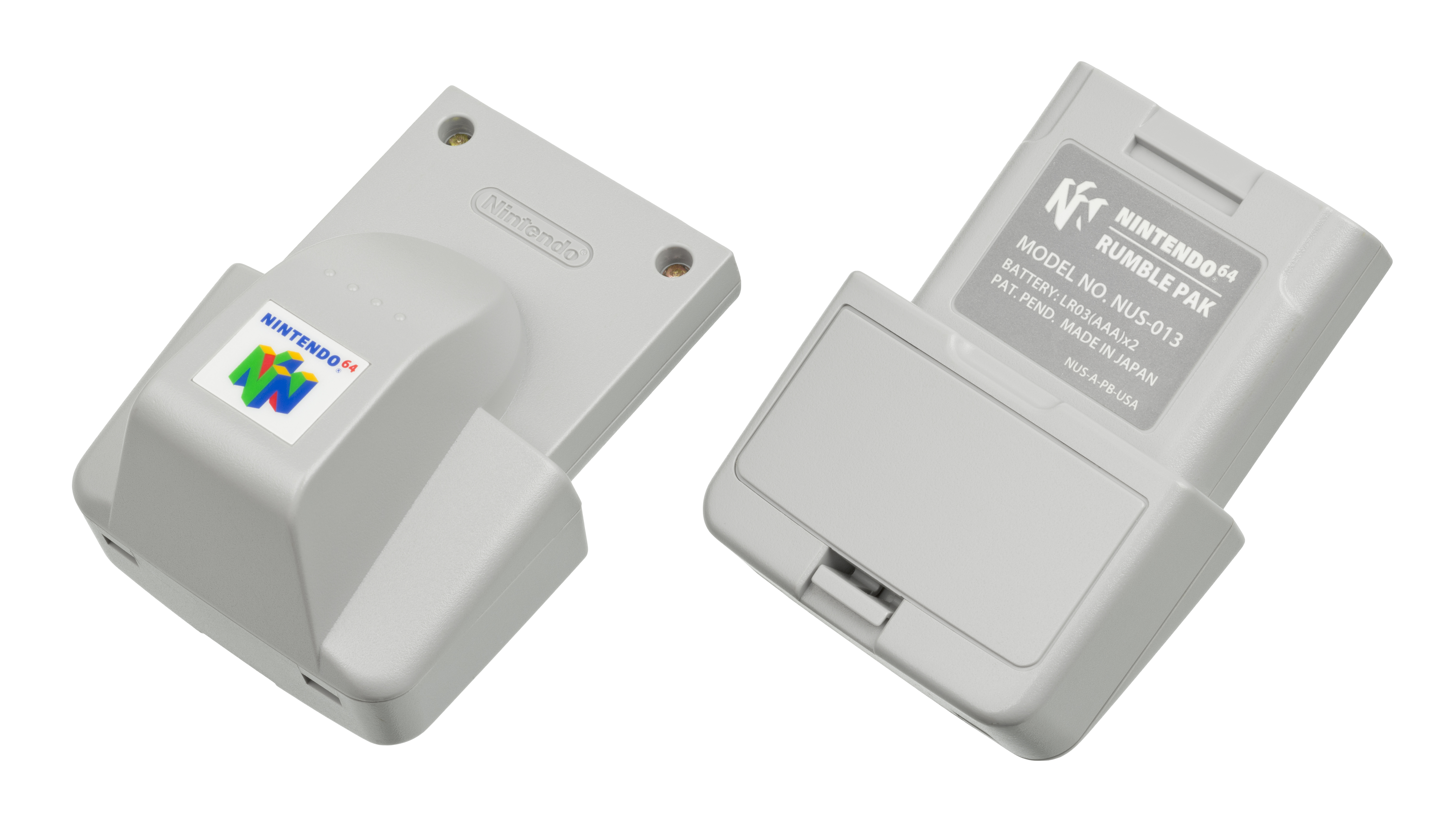 The Rumble Pak for the Nintendo 64 video game console, a rumble/force feedback accessory that slotted into the controller. Powered by two AAA batteries.